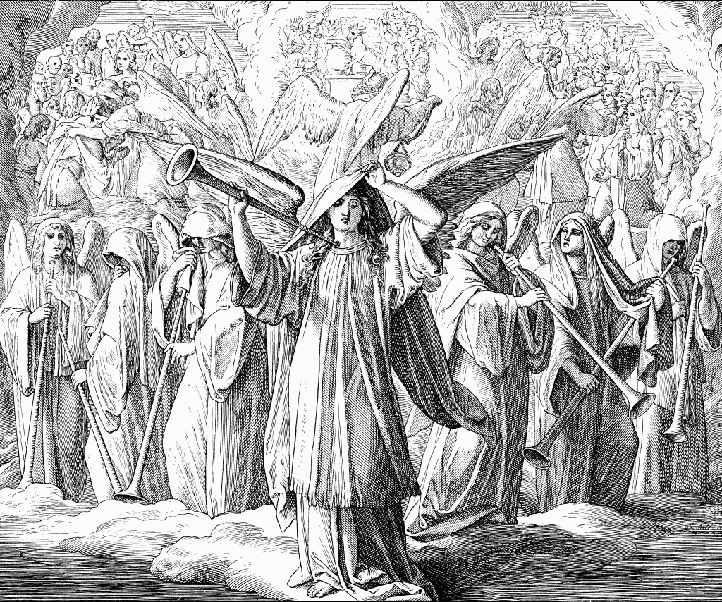 Woodcut for "Die Bibel in Bildern", 1860.